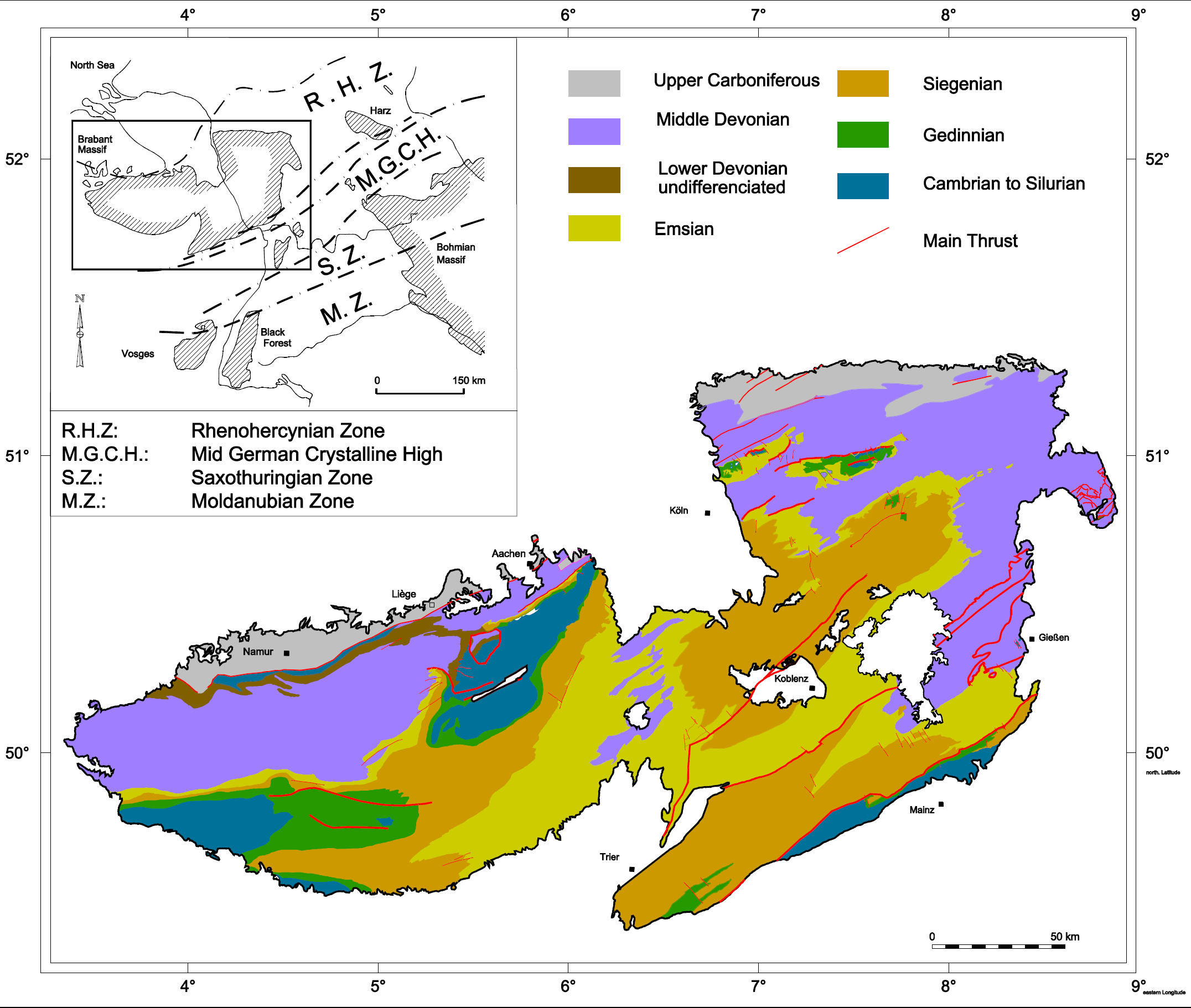 Geological Map of the Rhenish Massif. Inset: position of Rhenish Massif in the Variscan orogeny